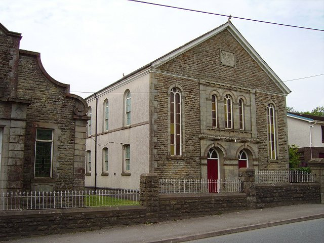 Capel Hendre. The chapel.